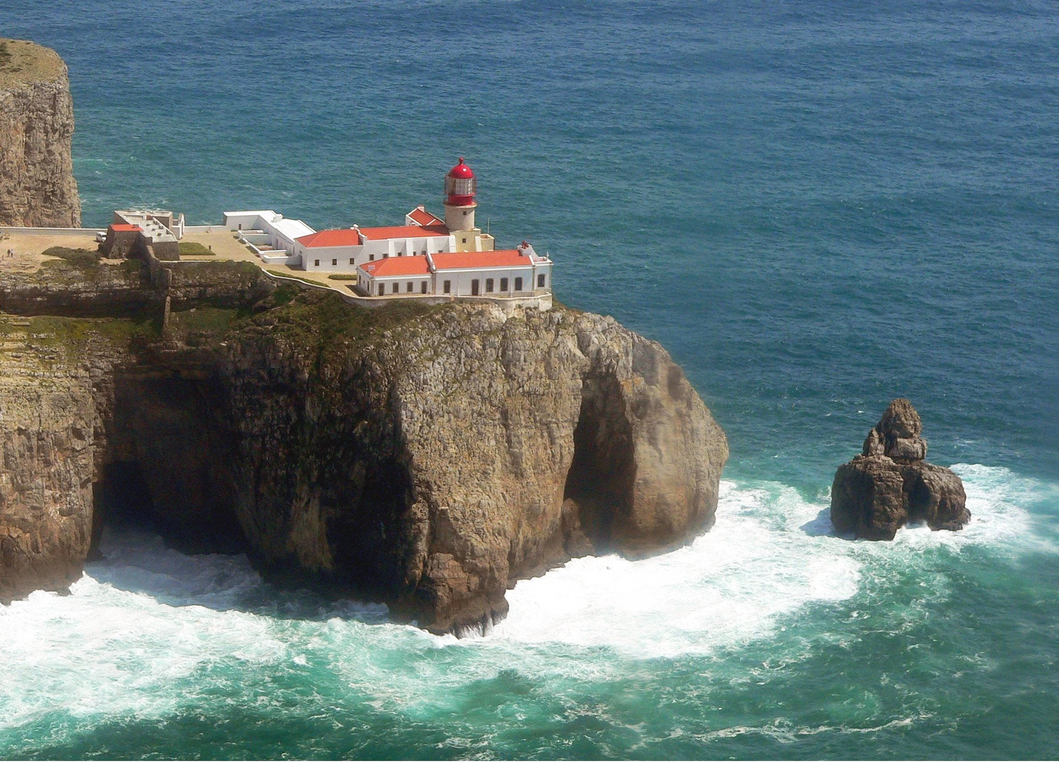 Lighthouse Sagres, Algarve Portugal